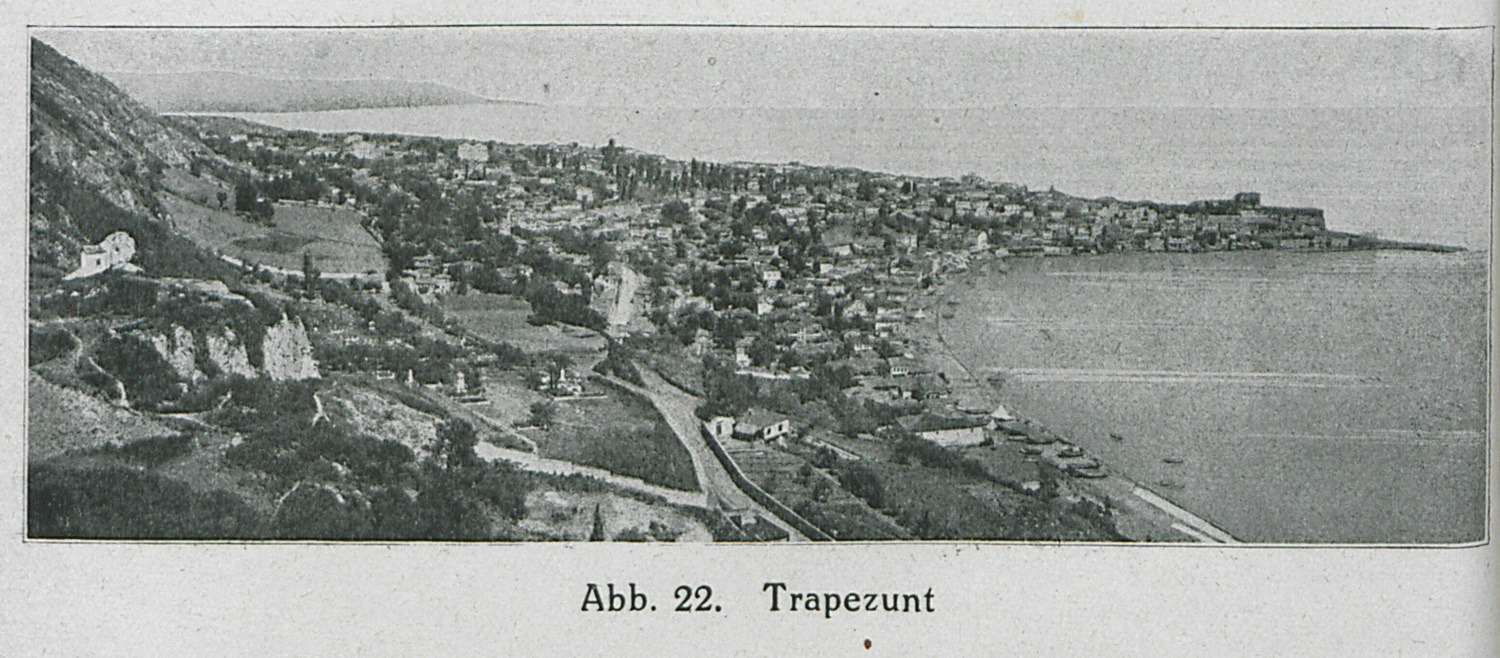 Ewald Banse. Die Türkei. Eine Moderne Geographie, Berlin/Βraunschweig/Hamburg 1919.